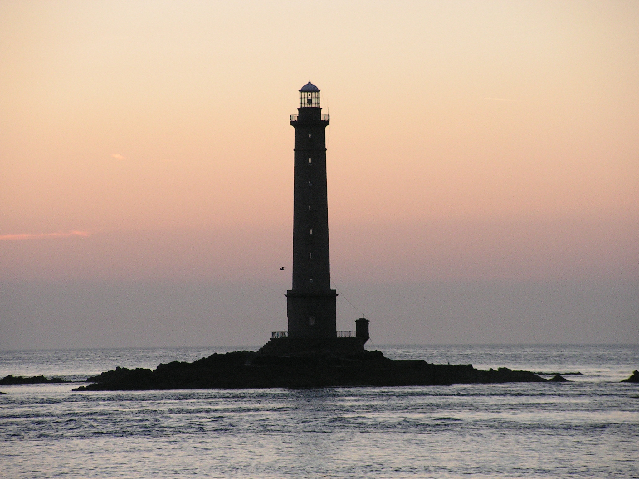 Lighthouse of La Hague in Normandie, France. 9mm Aperture: F/3.3 ISO: 160